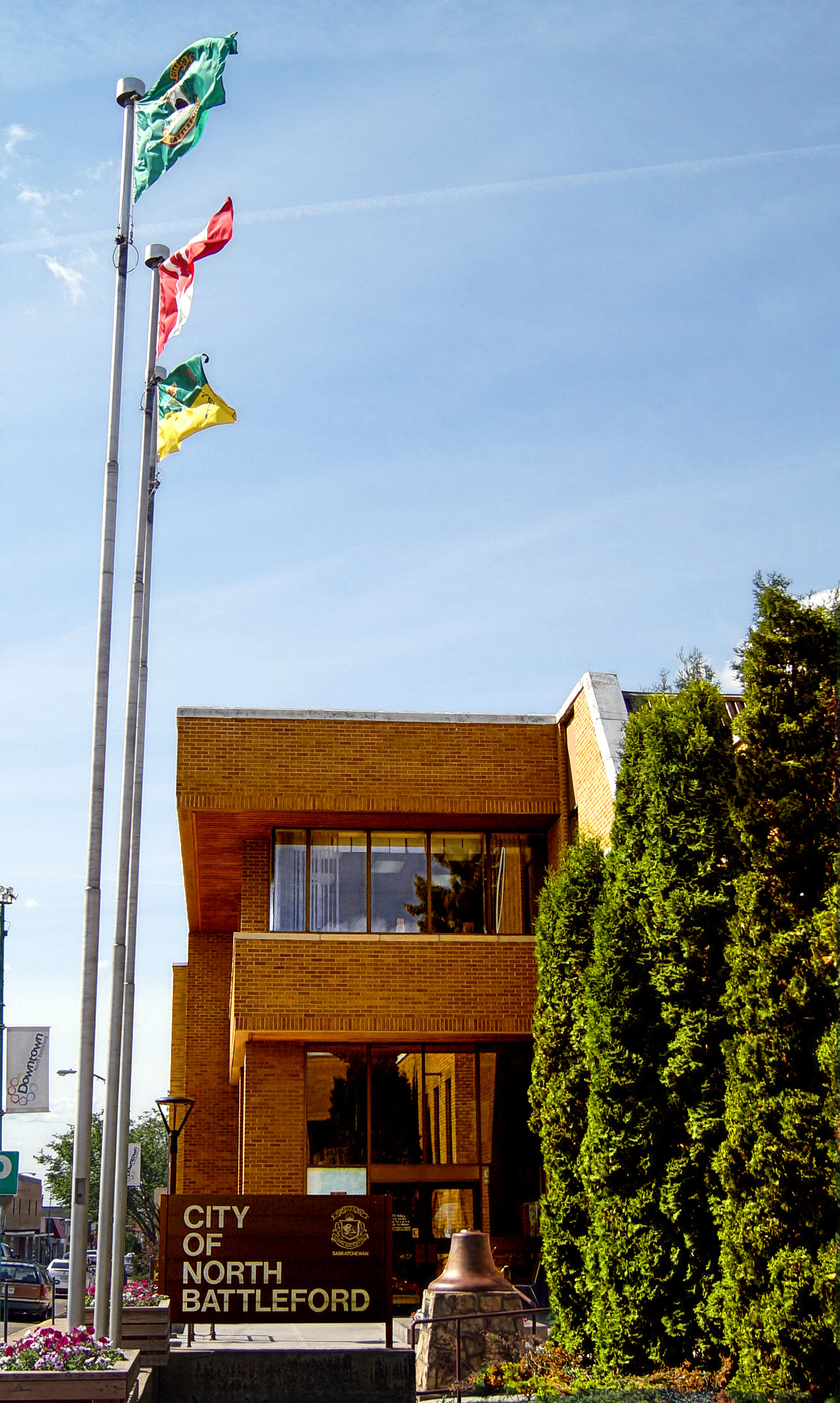 City Hall of the City of North Battleford seen from the west in the summer.